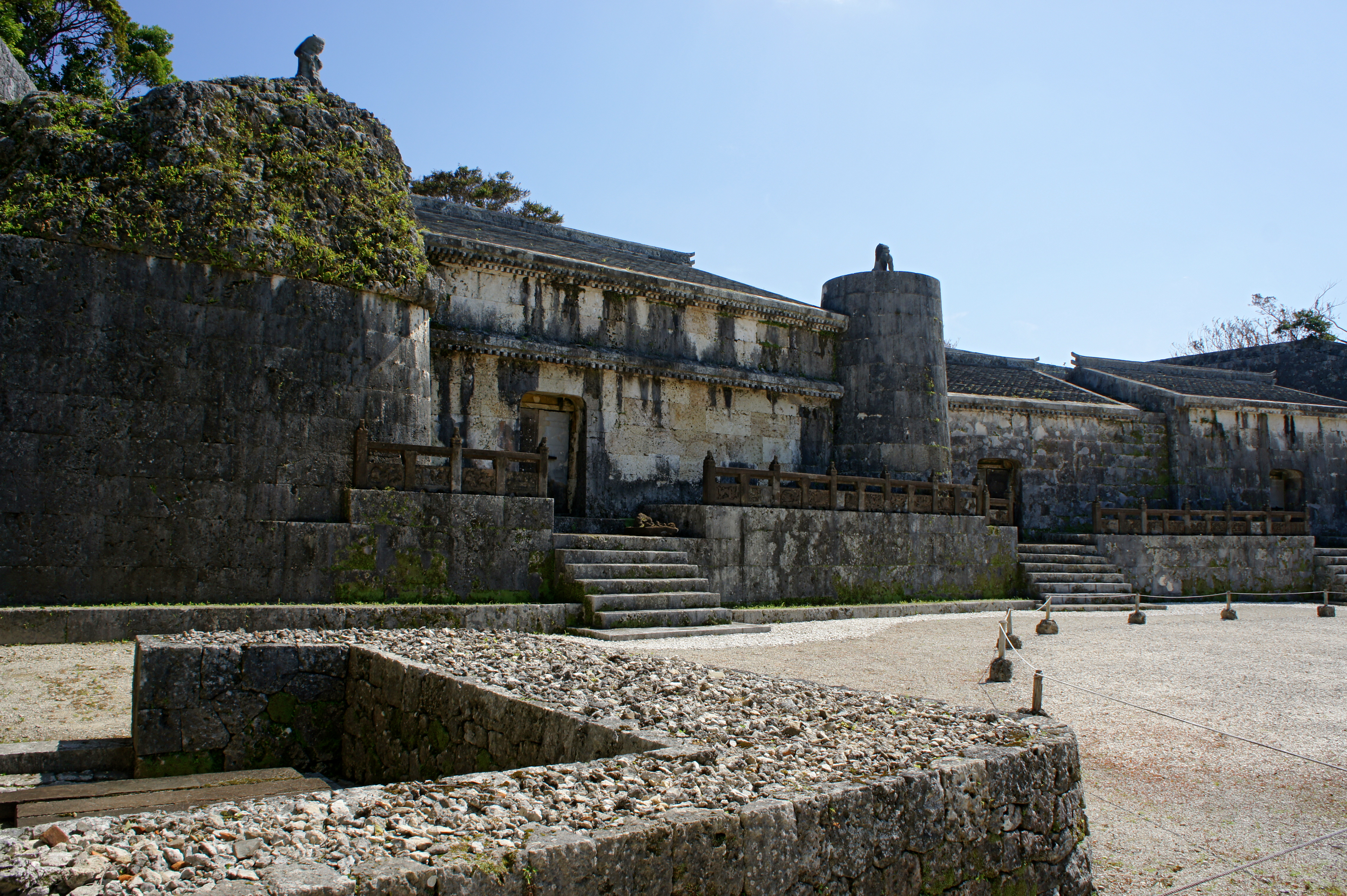 Tamaudun in Naha, Okinawa prefecture, Japan. Tamaudun was registered as part of the UNESCO World Heritage Site "Gusuku Sites and Related Properties of the Kingdom of Ryukyu".